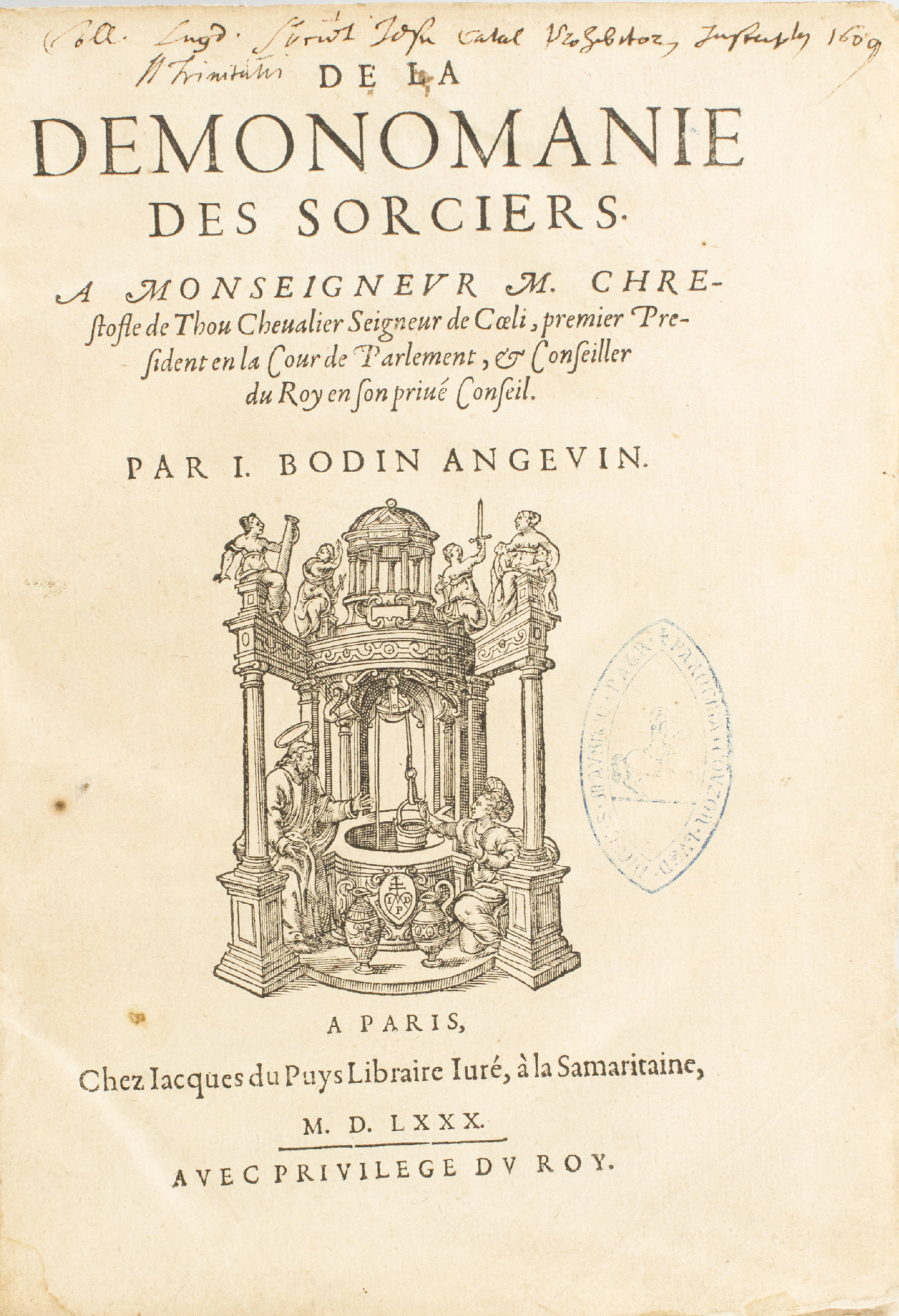 On the demonomany of warlocks. A book by Jean Bodin